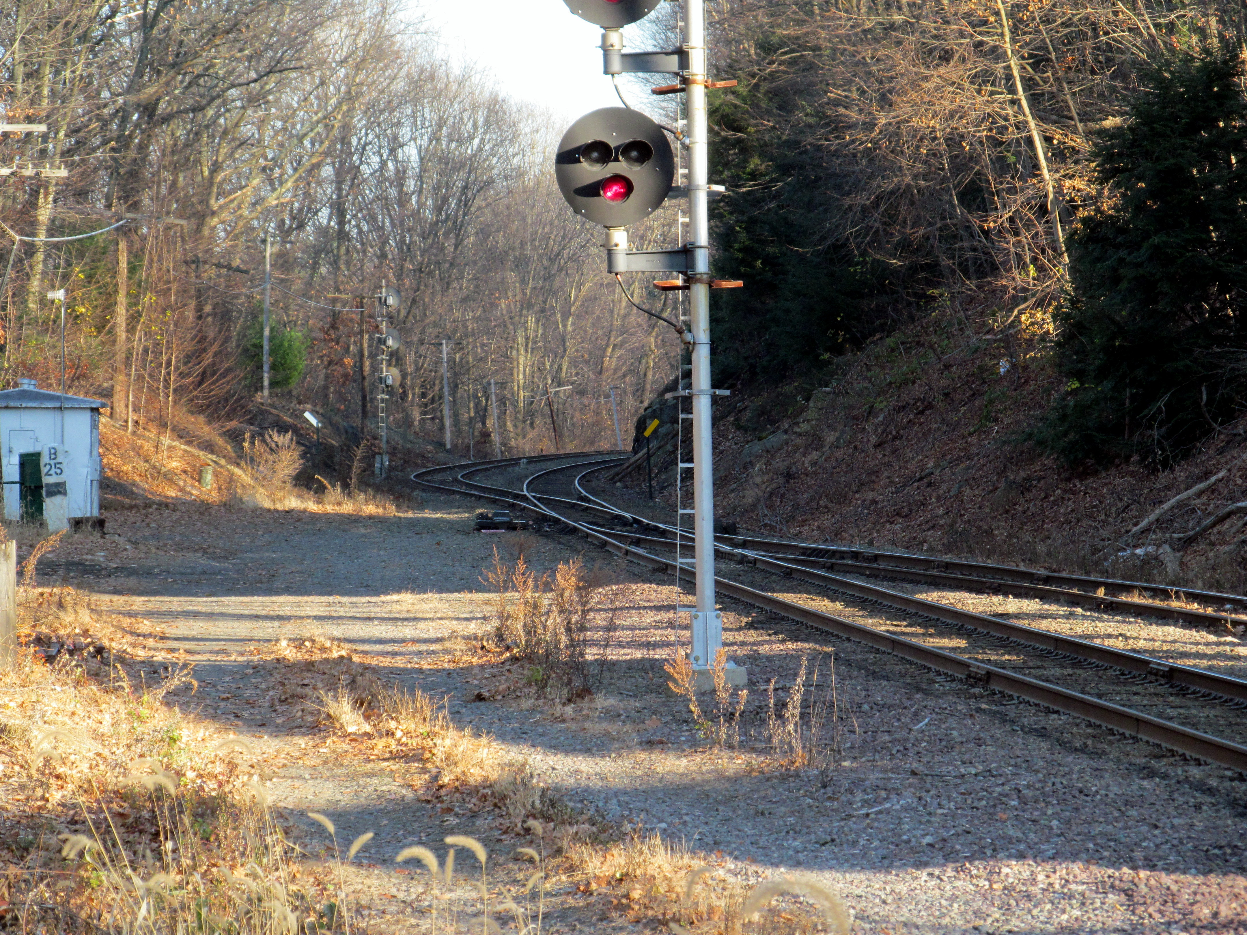 As of November 2012, double tracking on the Fitchburg Line ends here just east of South Acton. (The switch on the right leads to a siding used for turning trains.)